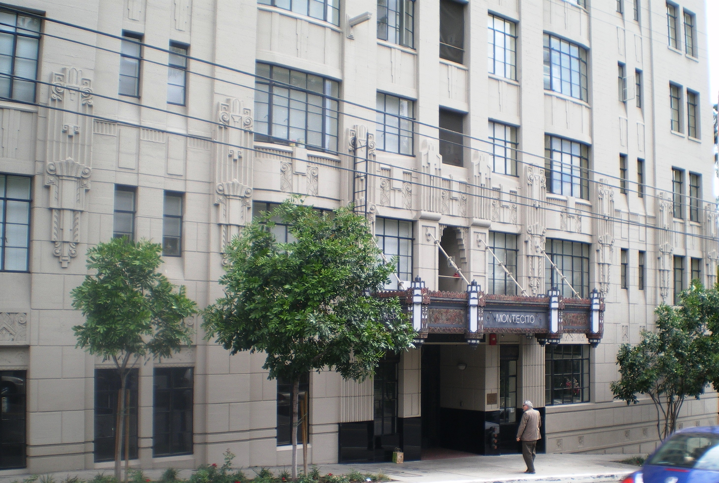 Montecito Apartments, Franklin Avenue, Hollywood, California